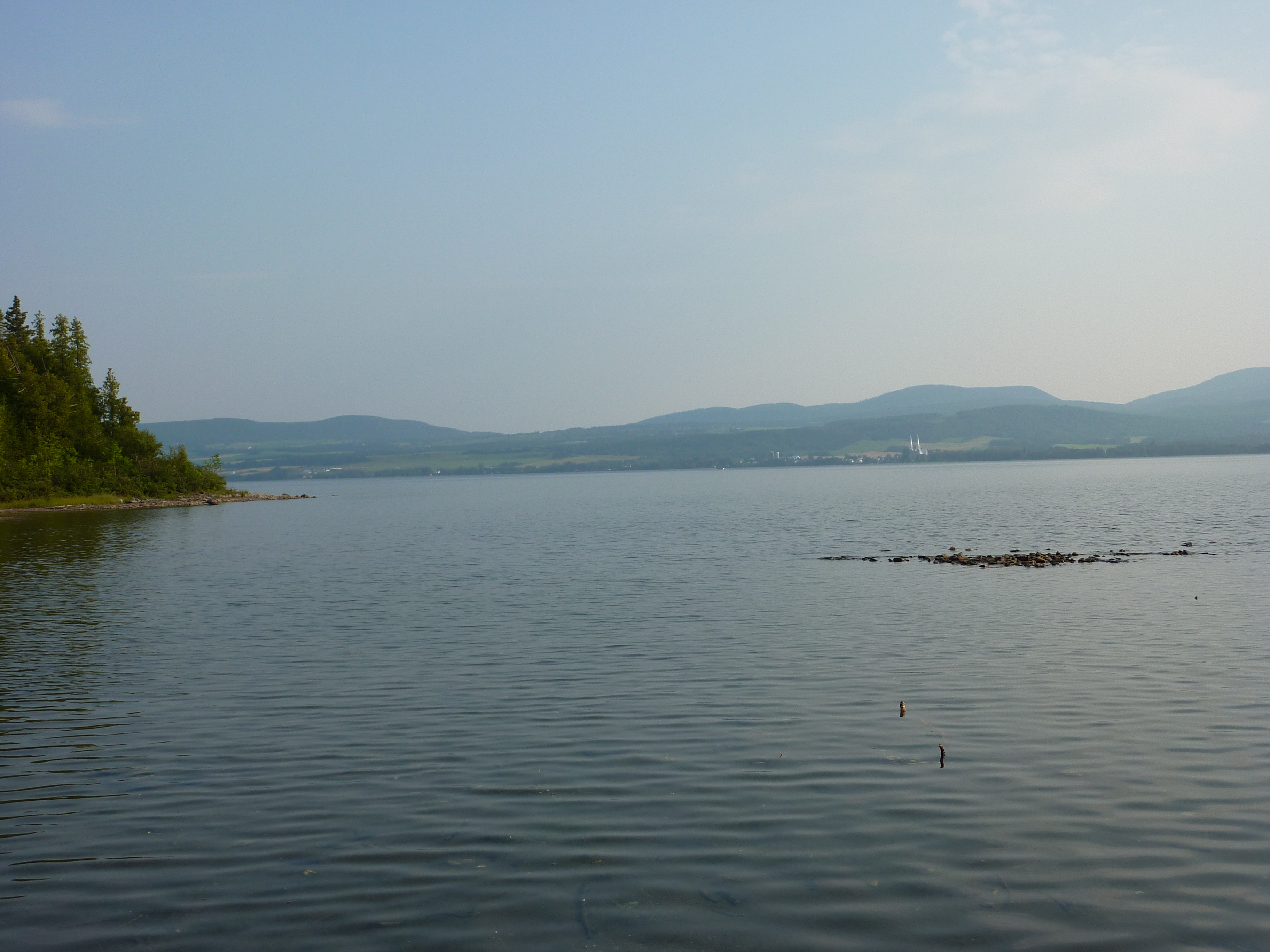 Matapédia Lake seen from Dépôt à Soucy beach